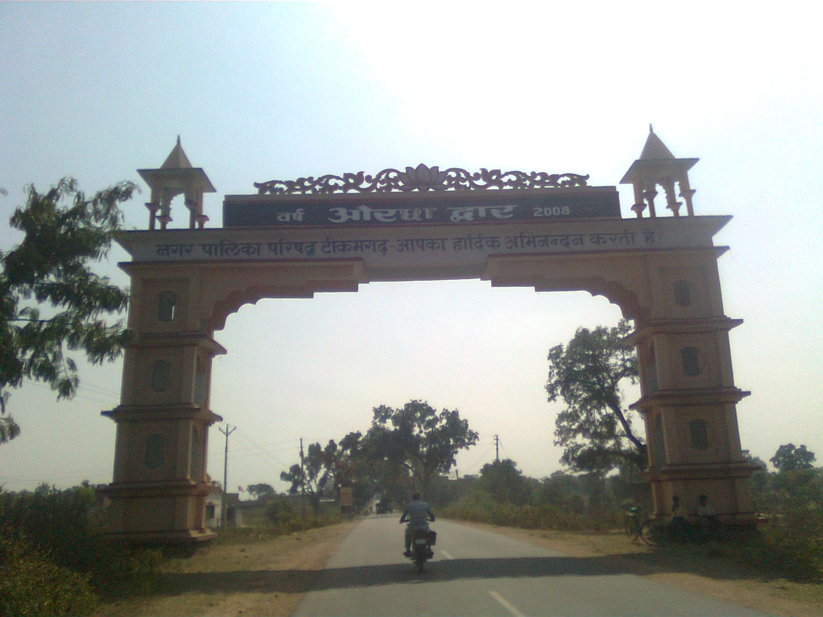 Tikamgarh